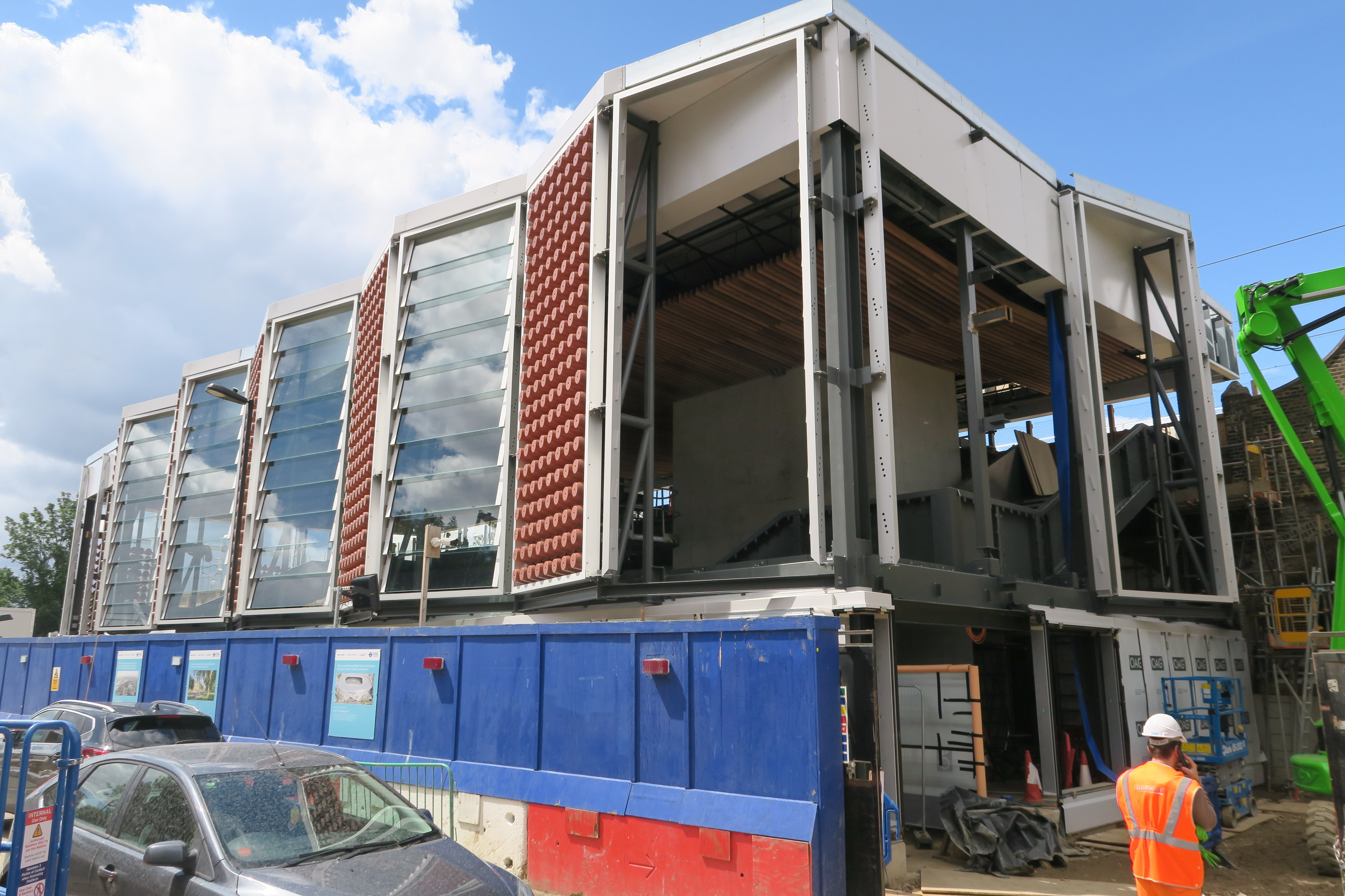 The new White Hart Lane railway station with a new ticket hall under construction, June 2019.